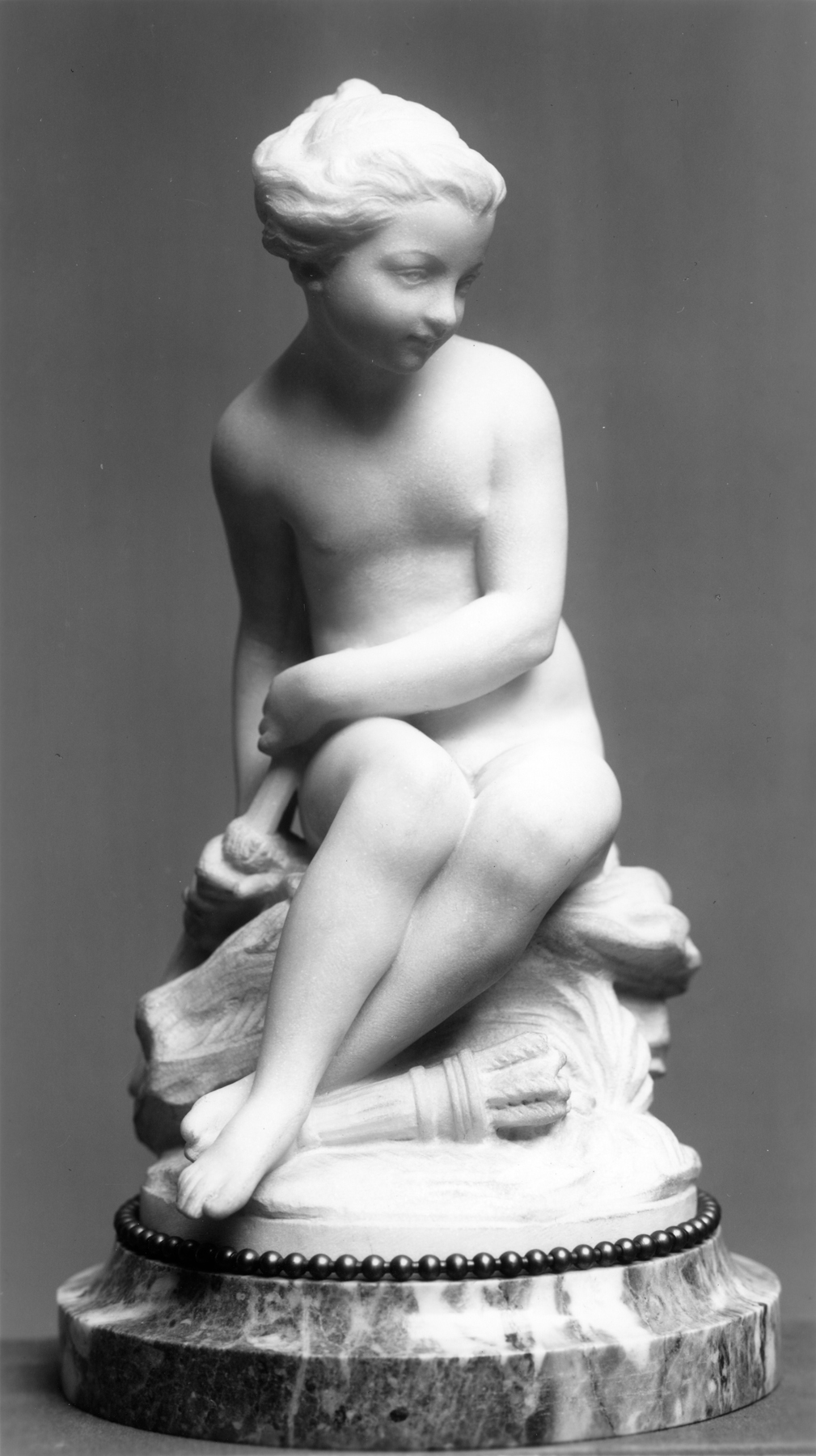 This nude figure of a young girl seated on rocks holds the quiver of Cupid. The piece is on a red marble and gilt metal base, and is a companion piece to Falconet's "L'Amour Menacant."